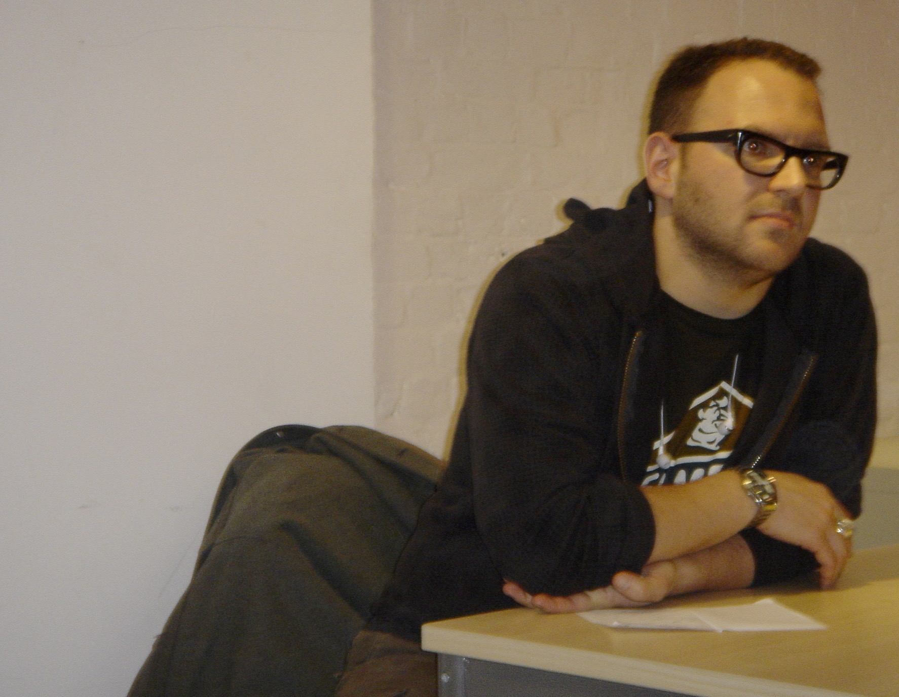 Cory Doctorow at UK conference hosted by Suw 2006